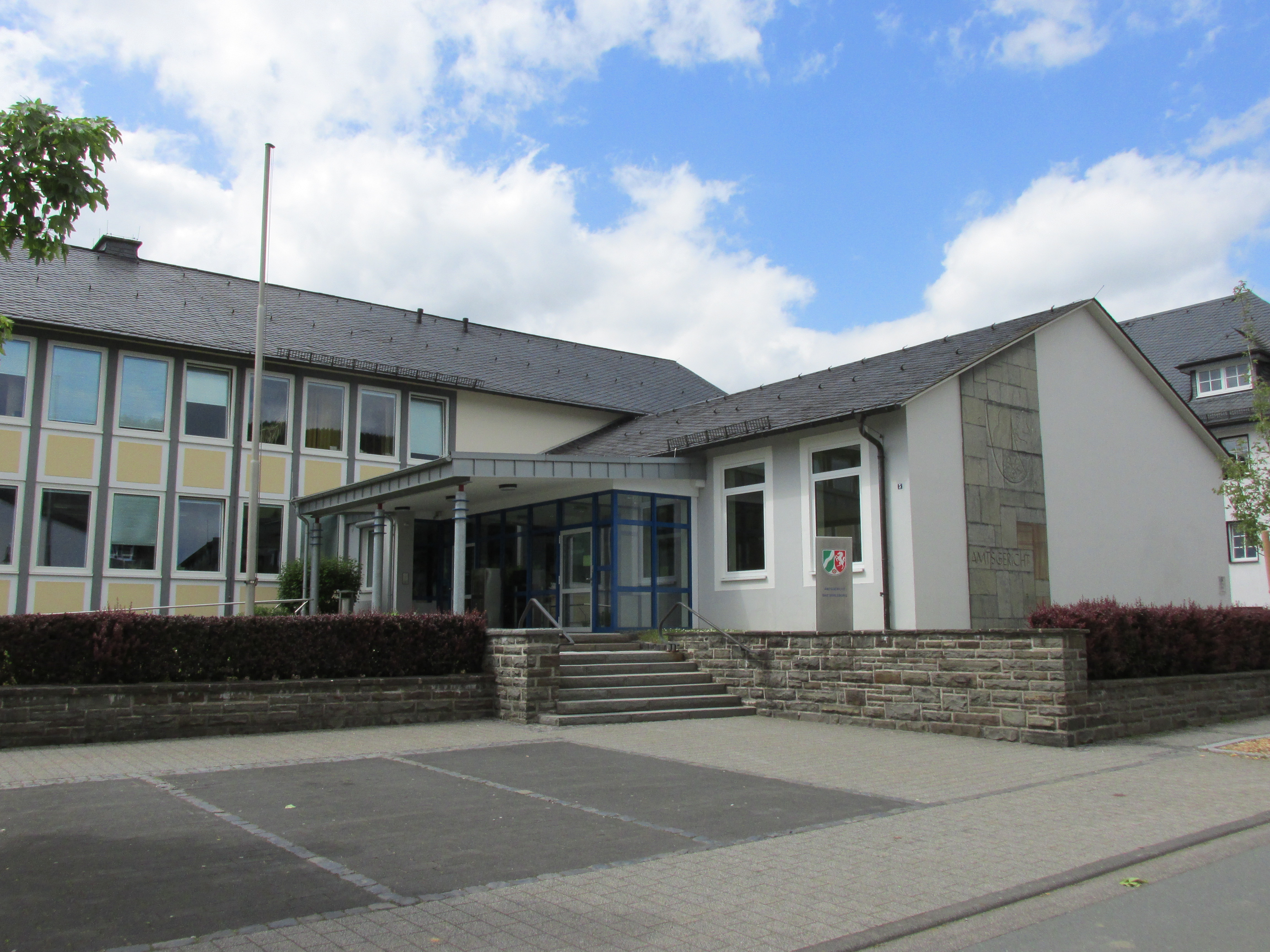 Courthouse Amtsgericht Bad Berleburg, Bad Berleburg, Germany